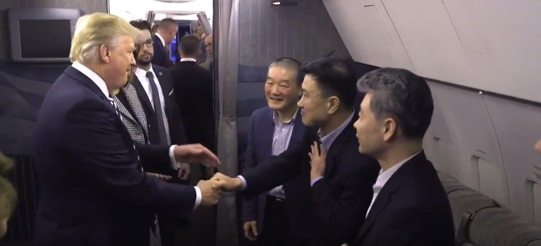 Trump Greets Americans Released by North Korea on 10 May 2018 _Video screen capture